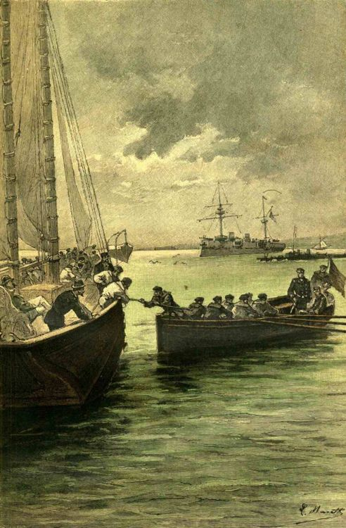 An illustration from Jules Verne's novel "Facing the Flag" (or "For the Flag").